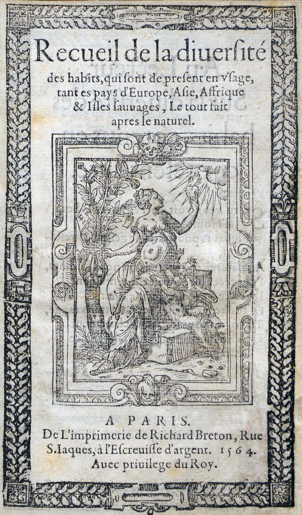 Title page from Recueil de la diuersité des habits, qui sont de present en vsage, tant es pays d’Europe, Asie, Affrique & isles sauuages, Paris: 1564. Printed and presumably illustrated by Richard Breton, text possibly by François Deserps ("Des Prez"). Digitized copy of complete book. Source: Typ 515.64.73, Houghton Library, Harvard University